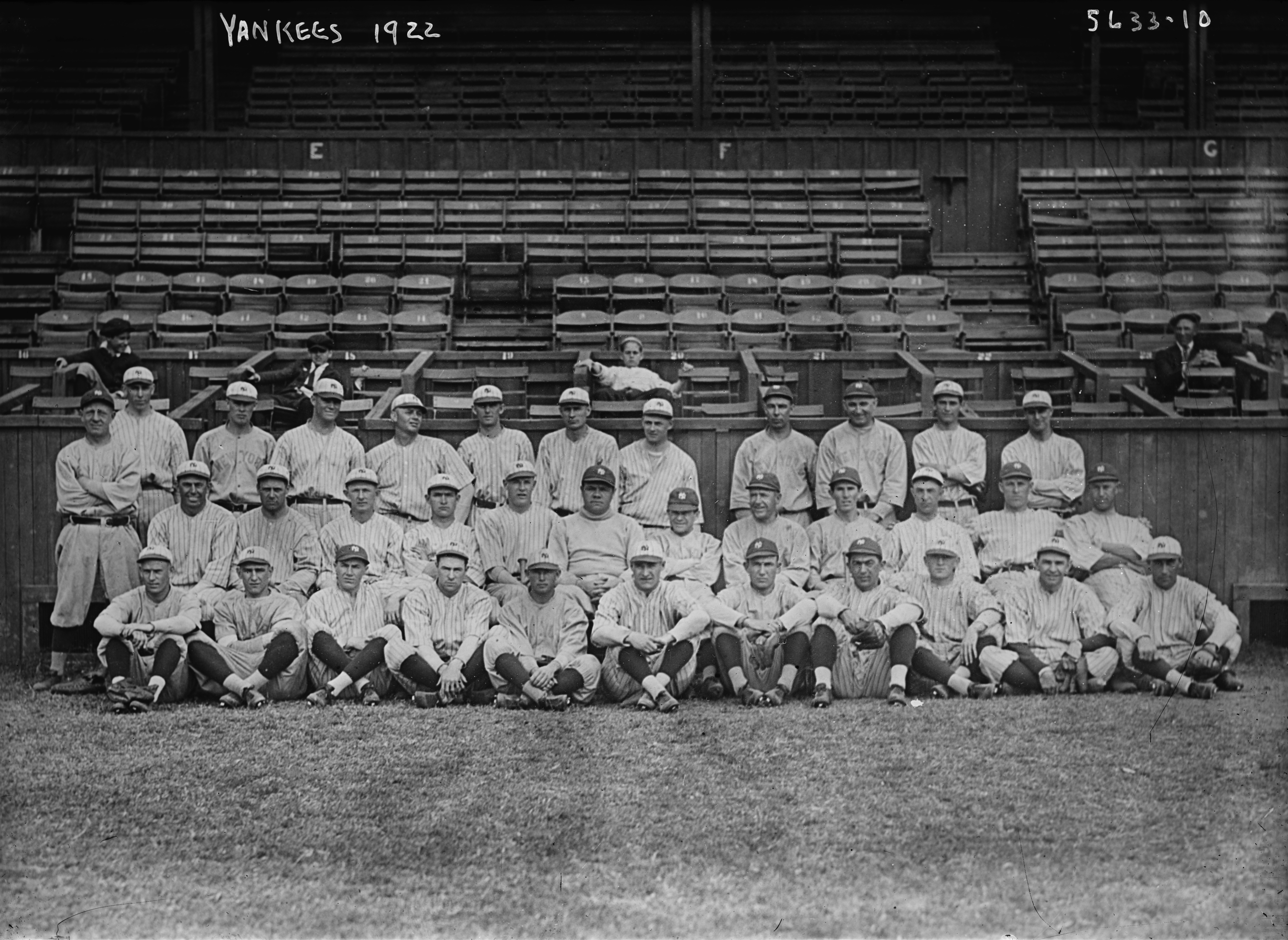 The 1922 New York Yankees team photo.